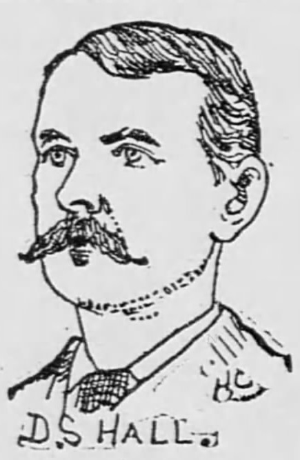 Darwin S. Hall (Minnesota Congressman)